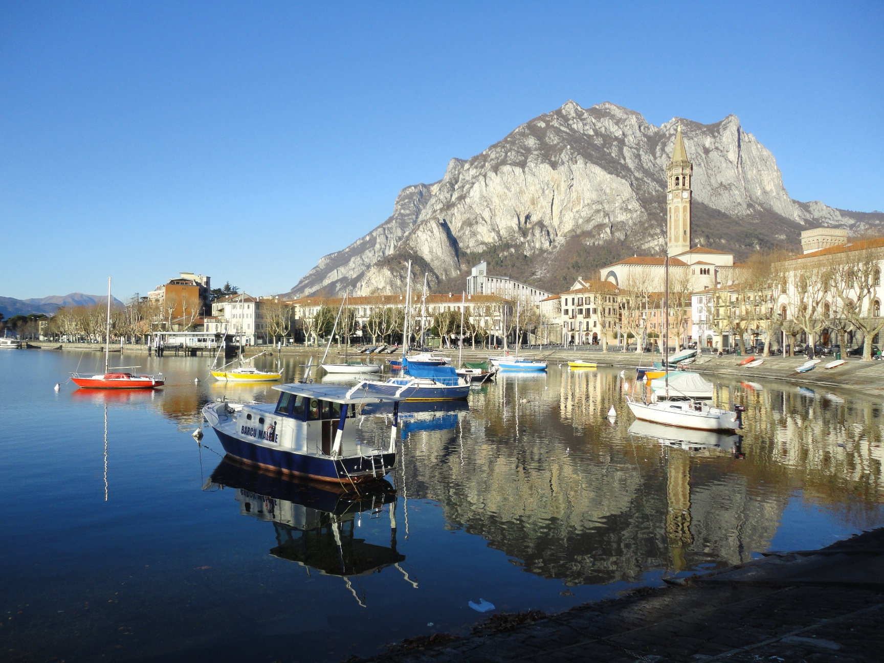 City of Lecco